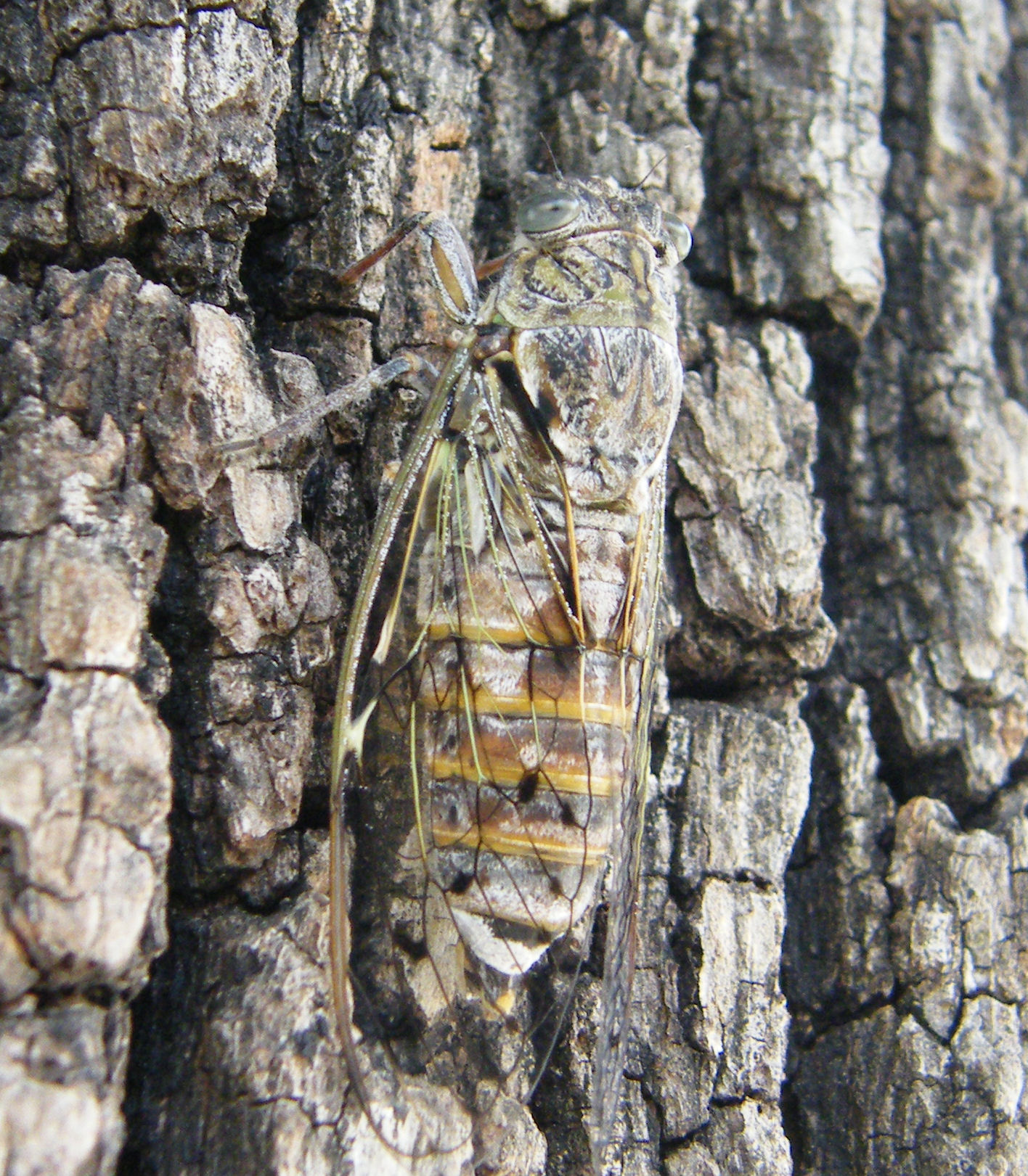 Cicadidae on a tree